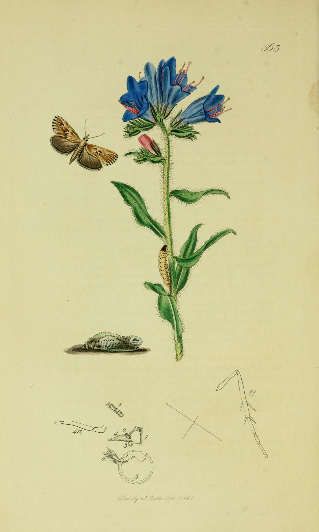 An illustration from British Entomology by John Curtis. Lepidoptera: Odontia dentalis or Cynaeda dentalis (Starry Brindle, Starry Brindled Pearl).